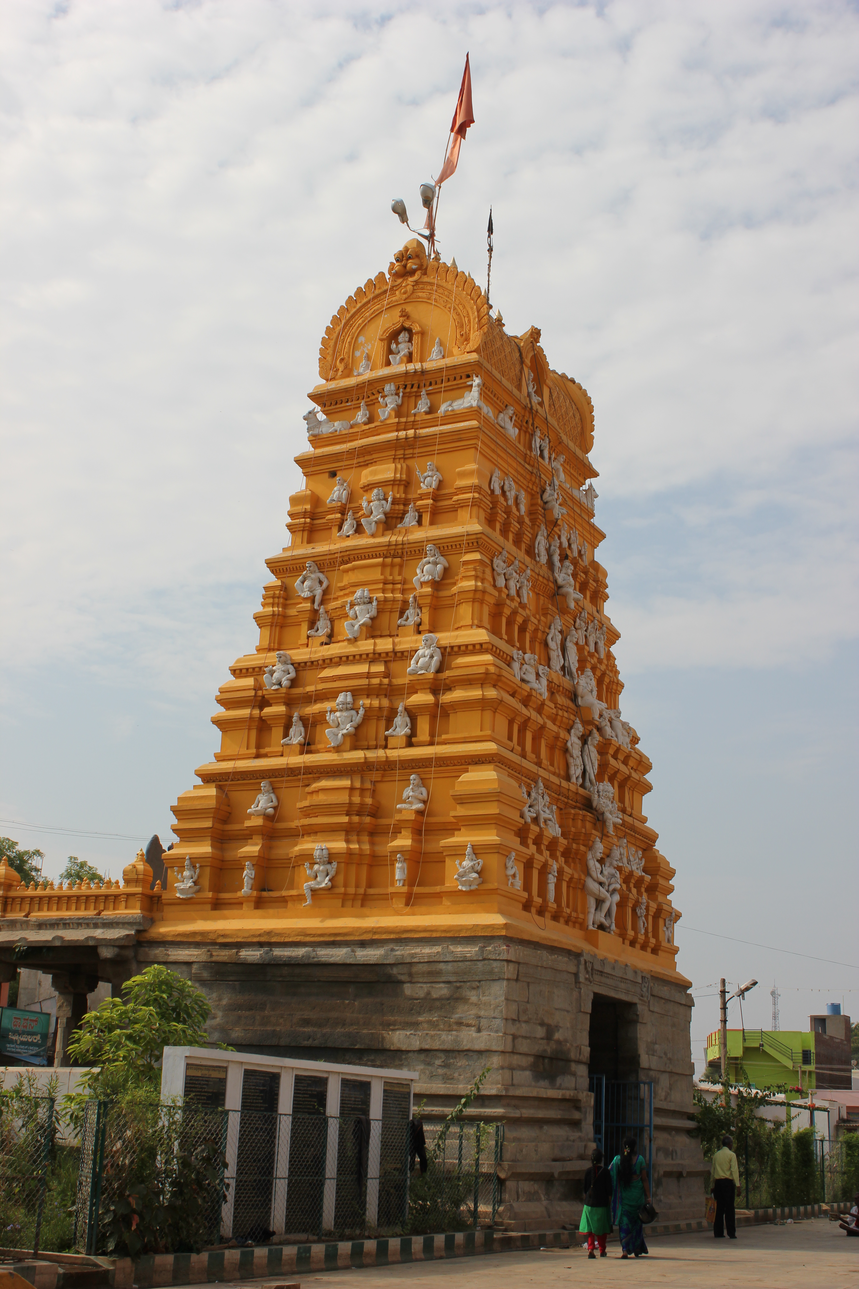 This photograph was taken by me at the Teru Malleshvara (also spelt Malleshwara or Mallesvara) temple at Hiriur in the Chitradurga district of Karnataka state, India. The temple is a Vijayanagara empire era construction.